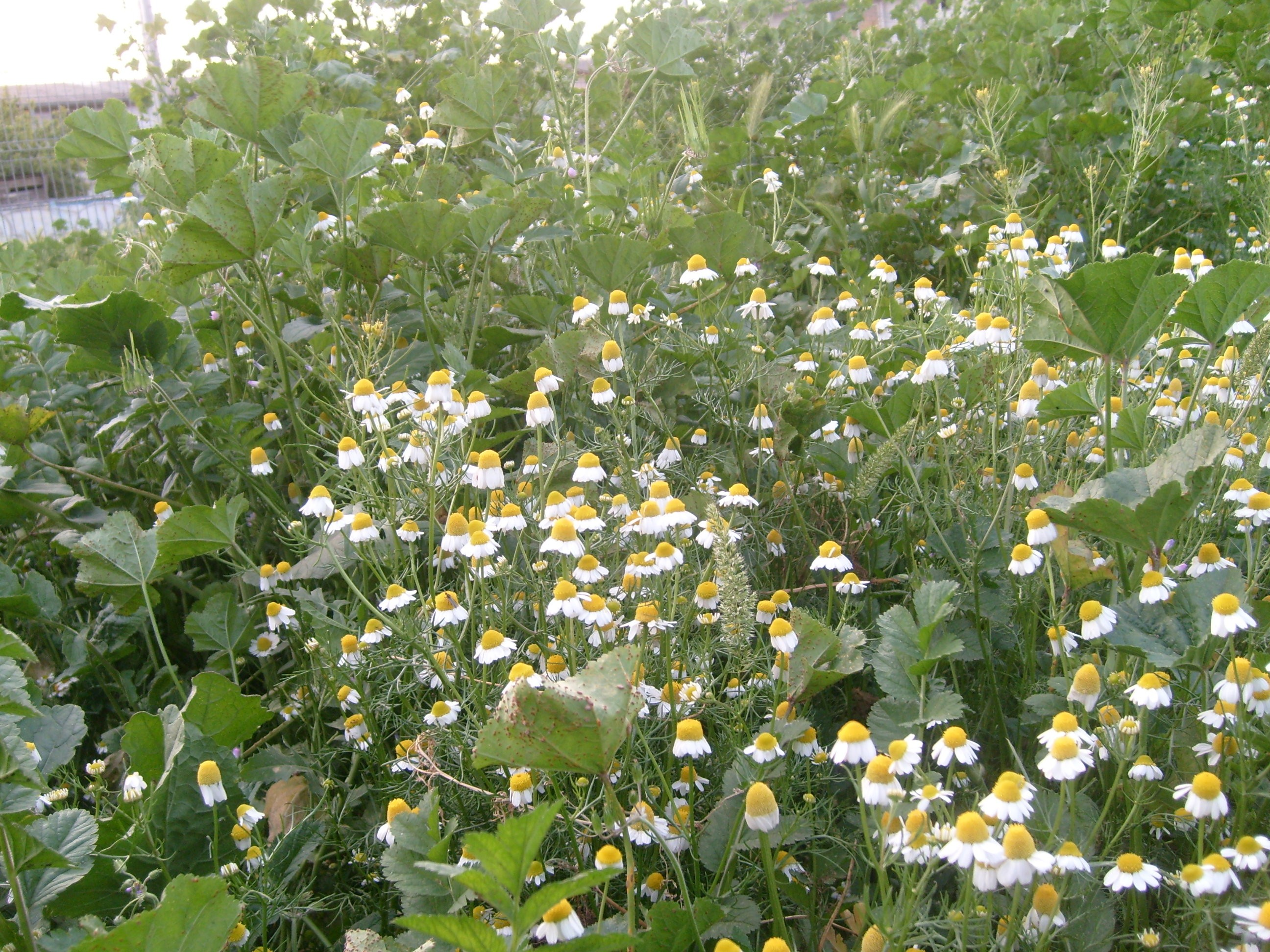 Matricaria recutita L., german camomile, as weed